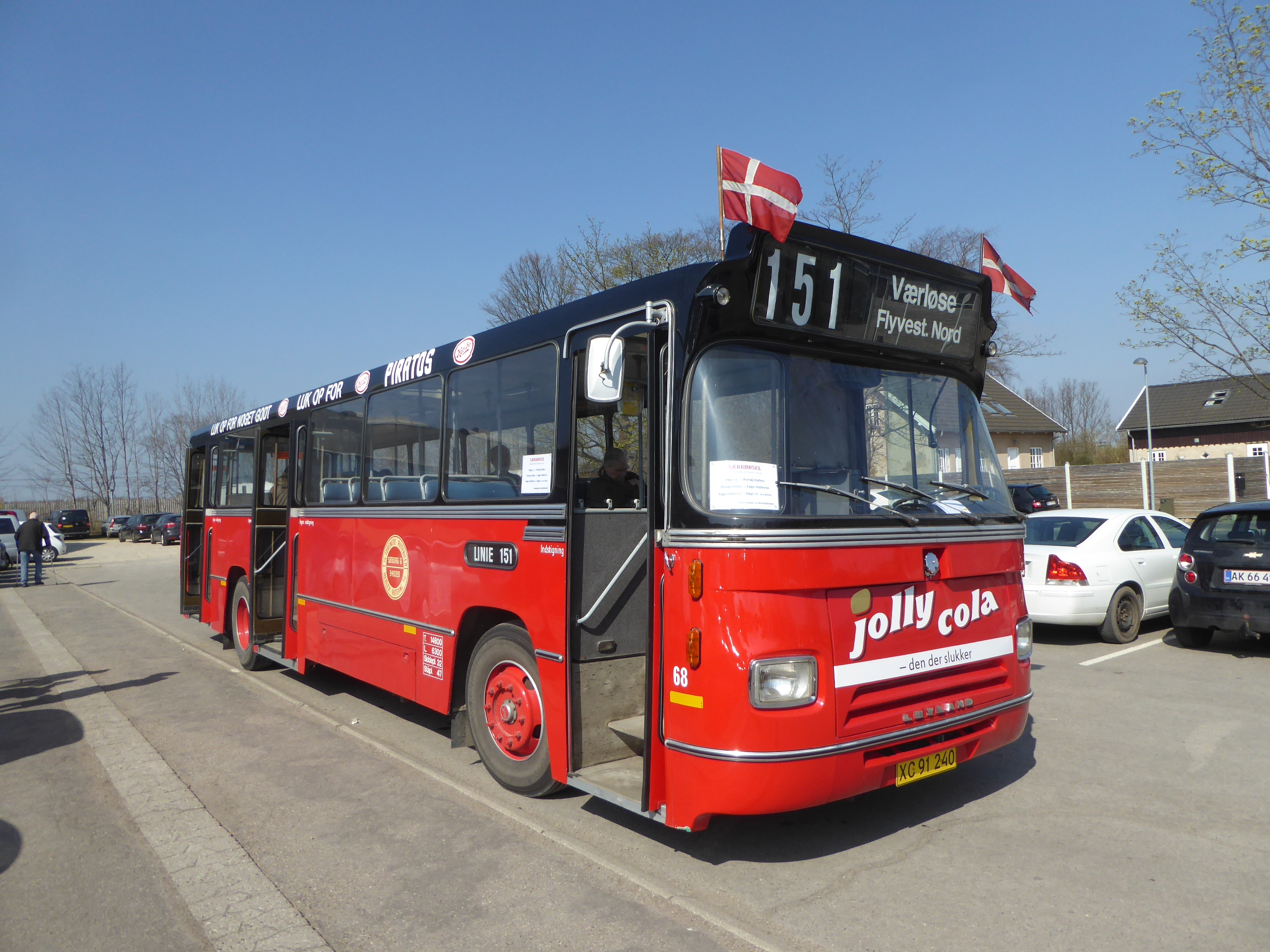 The heritage bus HR 68 at Rishøjhallen in Køge in Denmark. The bus belongs to Sporvejsmuseet Skjoldenæsholm.